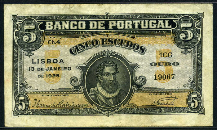 Portugal paper money 5 Escudos banknote of 1925, Álvaro Vaz de Almada.